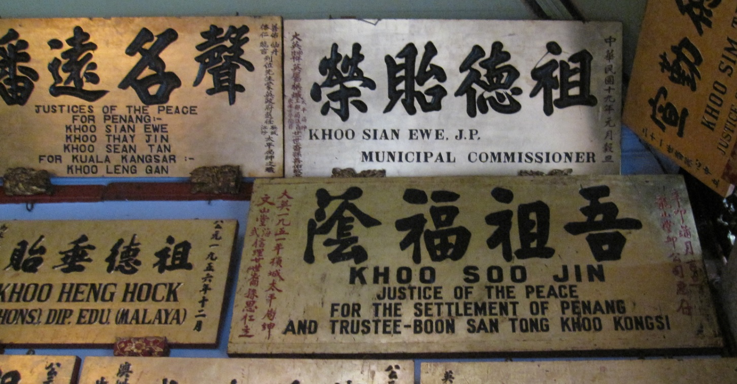 The plaques in Khoo Kongsi, Penang